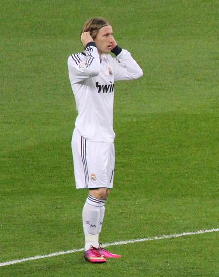 Luka Modrić playing for Real Madrid against Sevilla